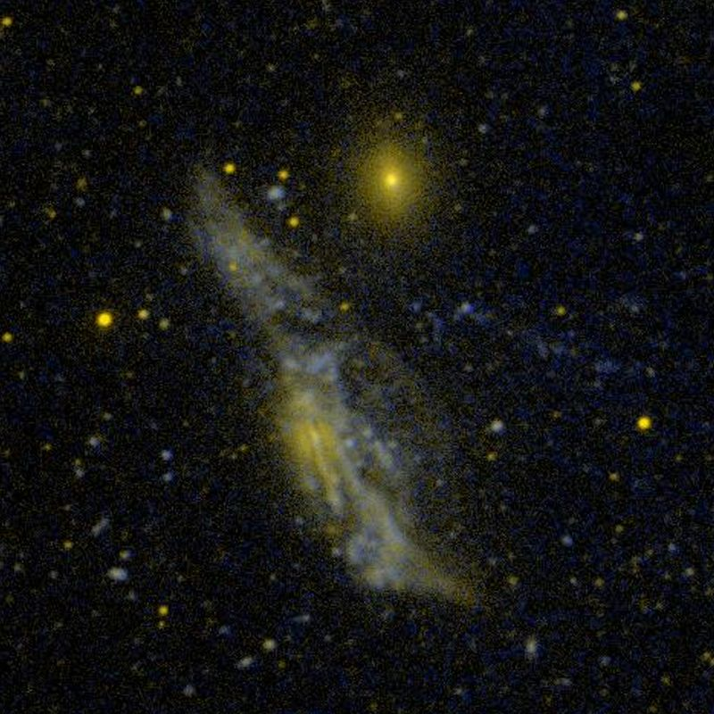 NGC 4438 (larger in the middle), NGC 4435 (smaller in top-right) galaxies by GALEX